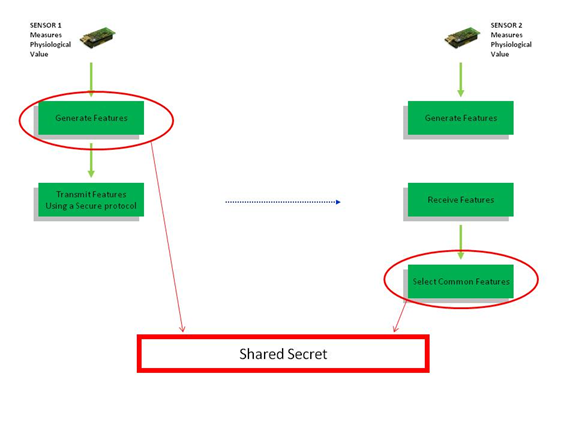 Physiological Value Based Security Protocol